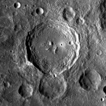 Lobachevskiy lunar crater LROC image